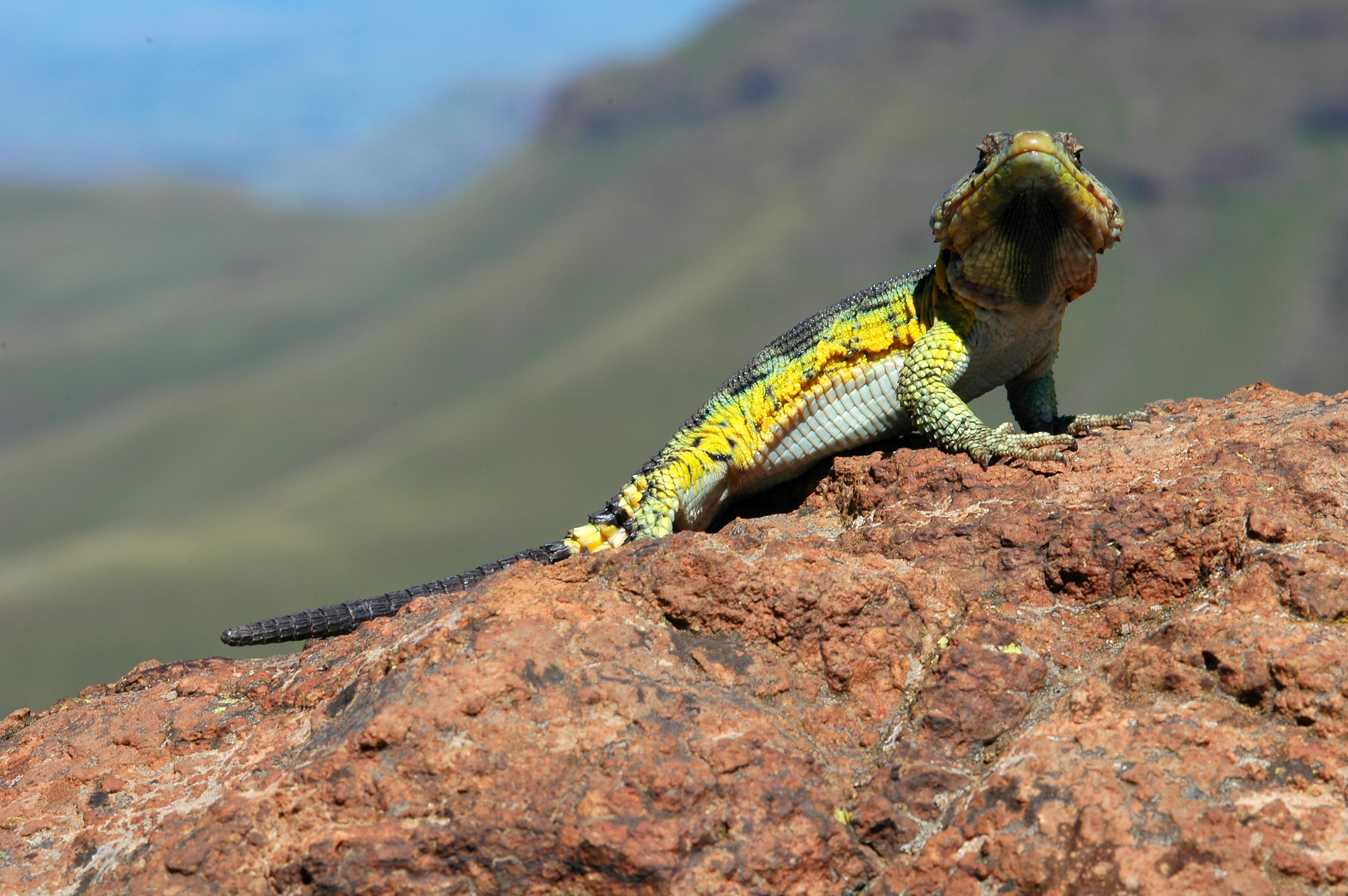 A male Drakensberg Crag Lizard in the uKahlamba-Drakensberg Park on the Lesotho border